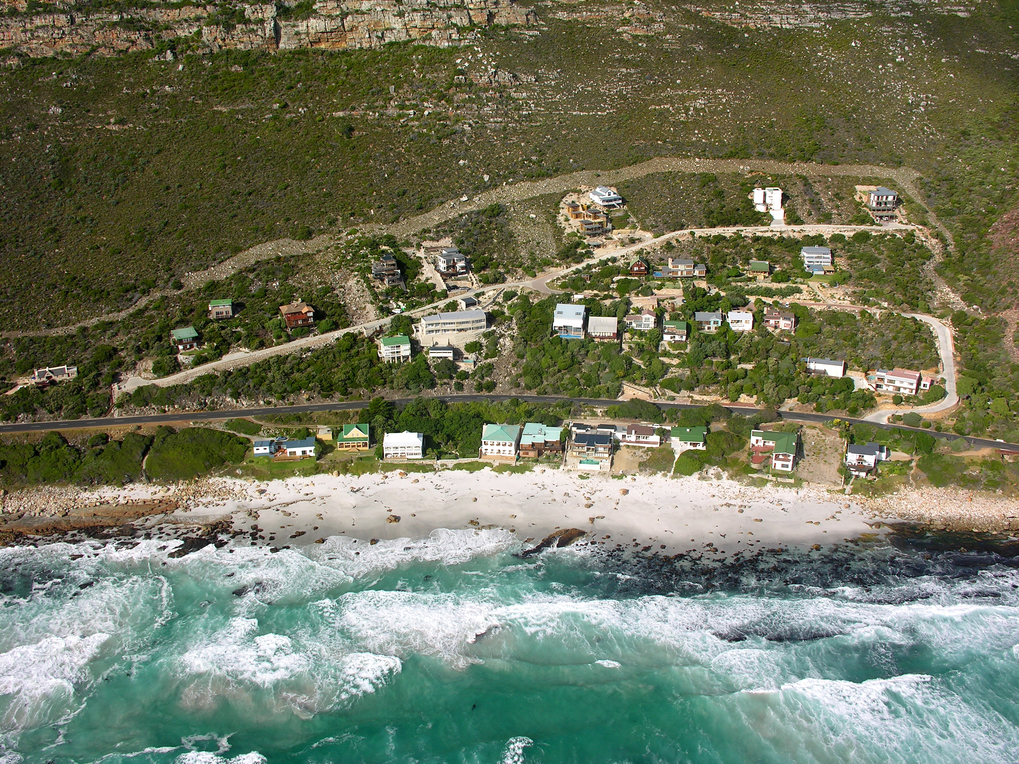 South Africa, Aerial views around Cape Town. For exact location see geocode.